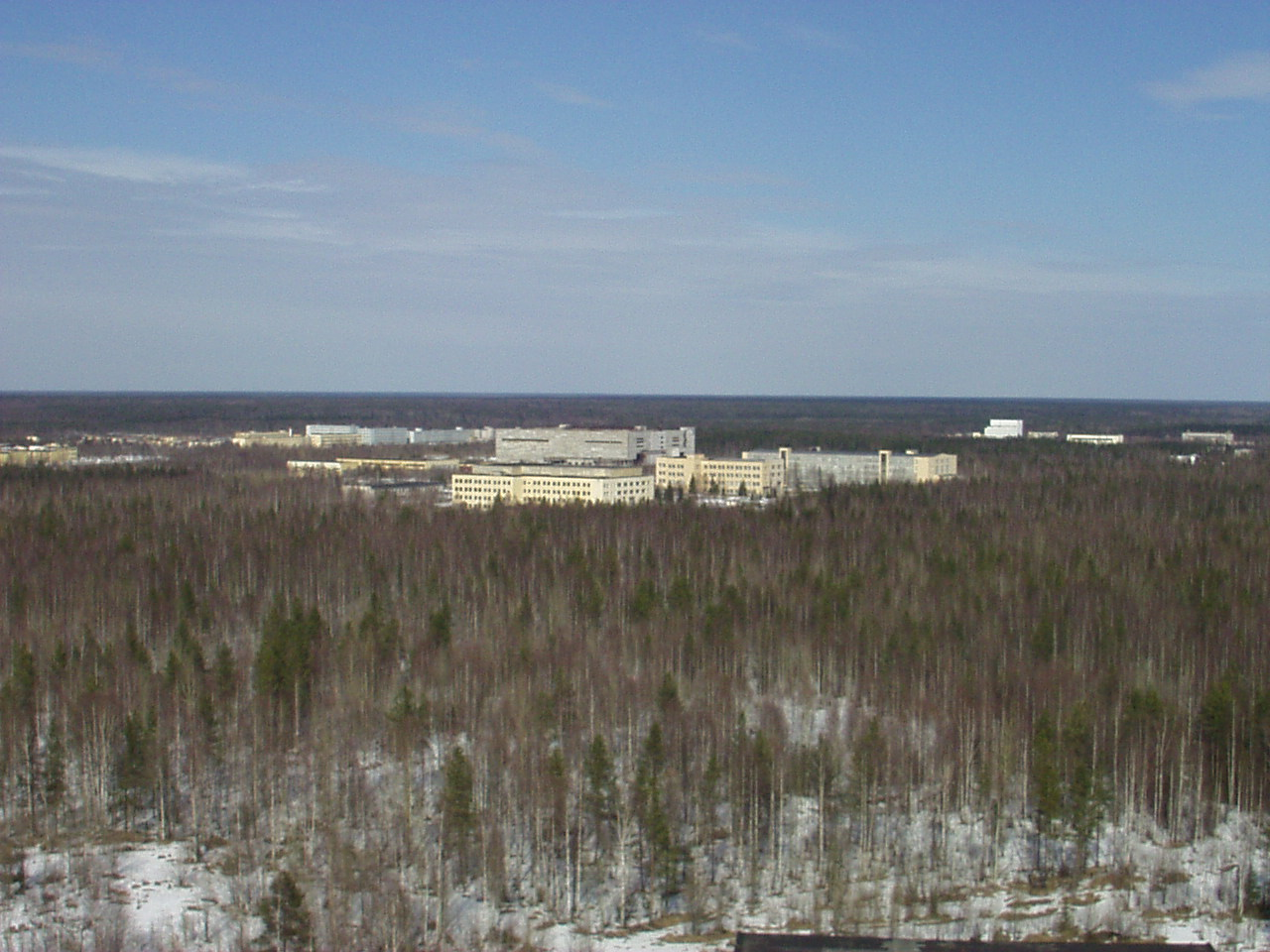 Satellite assembling facilities at Plesetsk Cosmodrome near Mirny town